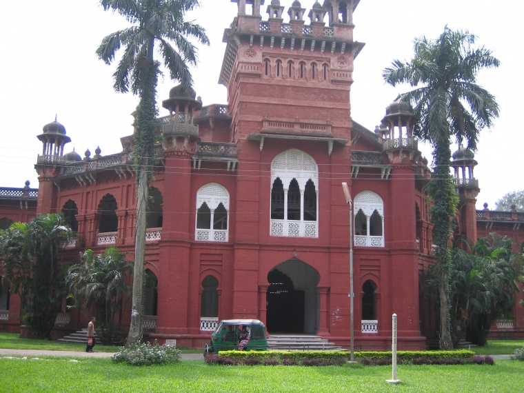 This building is generally known as Karzon Hall. It was established in the early 20th century by a british governer named Lord Karzon. But In 1920 the University of Dhaka was established and since then Karzon hall is a part of the University of Dhaka. It is a three storied building with 32 lectures room and the hall room is used as an exam hall. Here about 700 students can participate exam at a time. It is a giant building. this building is architectarly very important and an centurian symbol of British adminstration.